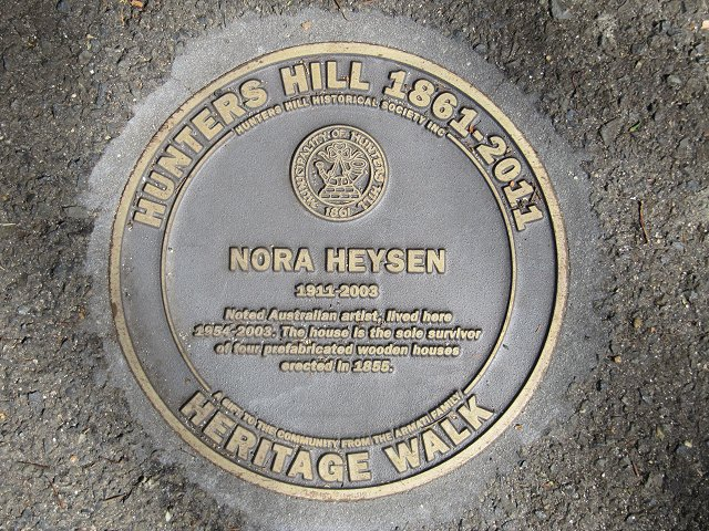 The Chalet